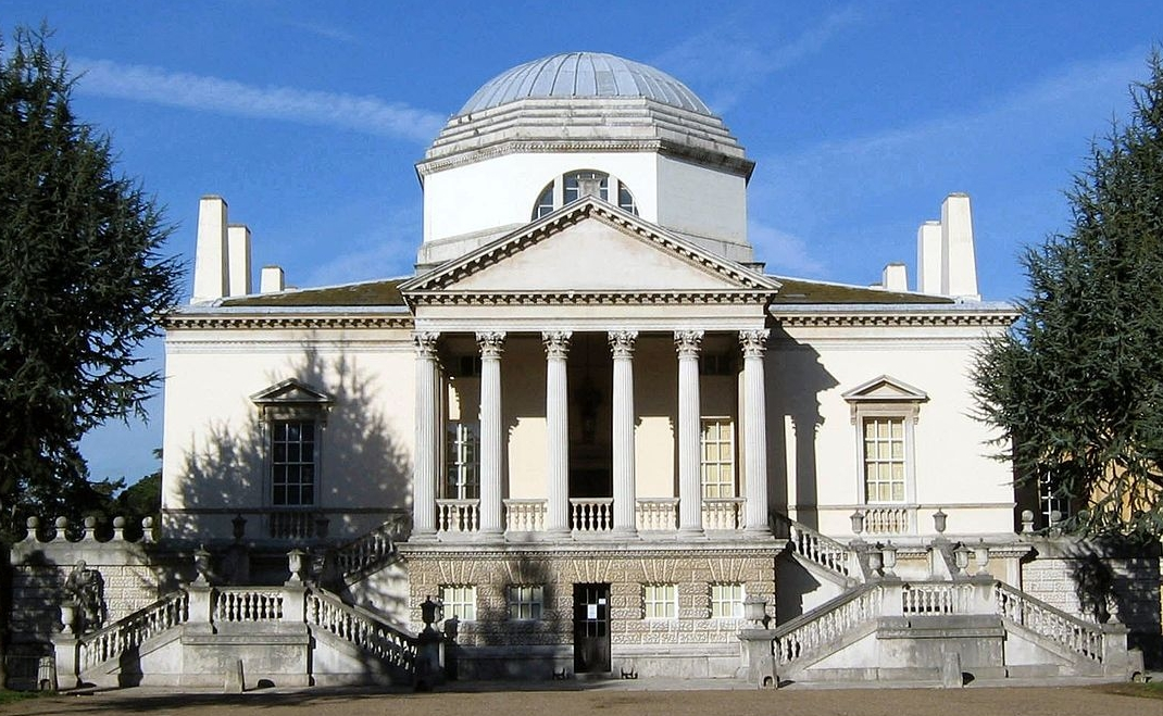 A1=main elevation of Chiswick House, London The photo was taken 26 October 2004 using a Canon Powershot A80 camera. Patche99z (talk) 12:28, 6 February 2009 (UTC)